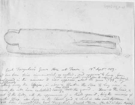 19th century sketch of the gravestone of Ferchar mac in t-Sagart, Earl of Ross